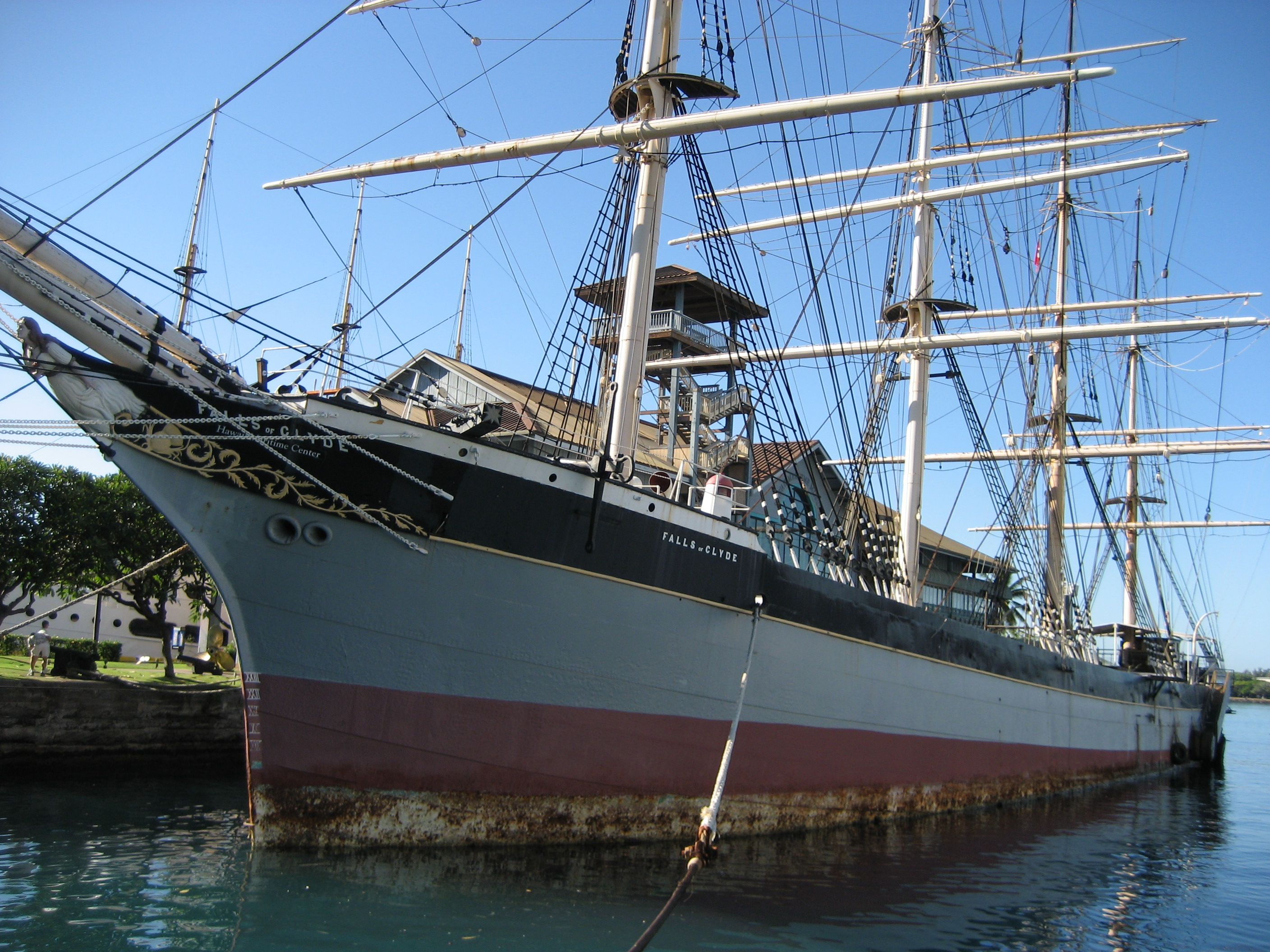 The Falls of Clyde - An early oiltanker